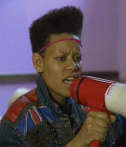 Lesbian Activist Beverly Palesa Ditsie at the first gay liberation march in Africa on October 13, 1990 in Braamfontein, Johannesburg, South Africa.